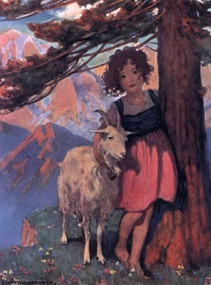 Heidi and a goat